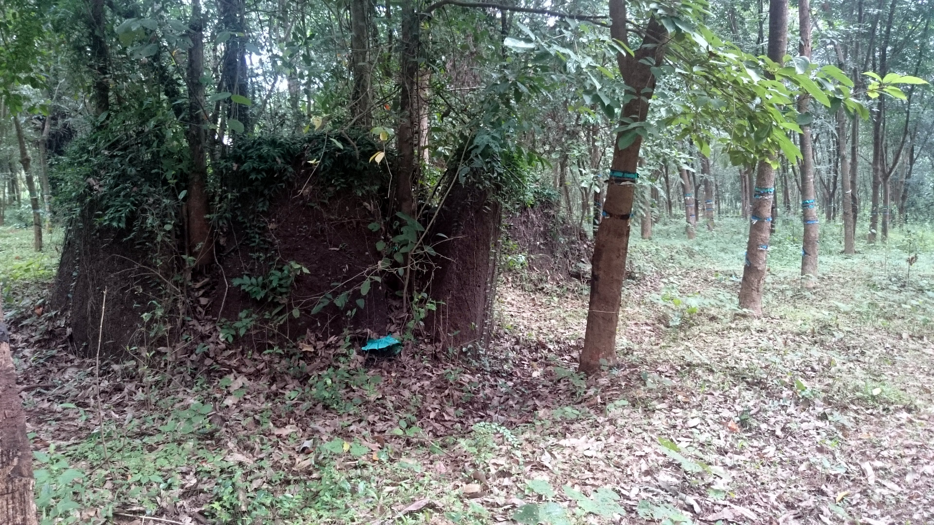 Nannangadikal, (Urn burials) found in Ottapalam, Palakad